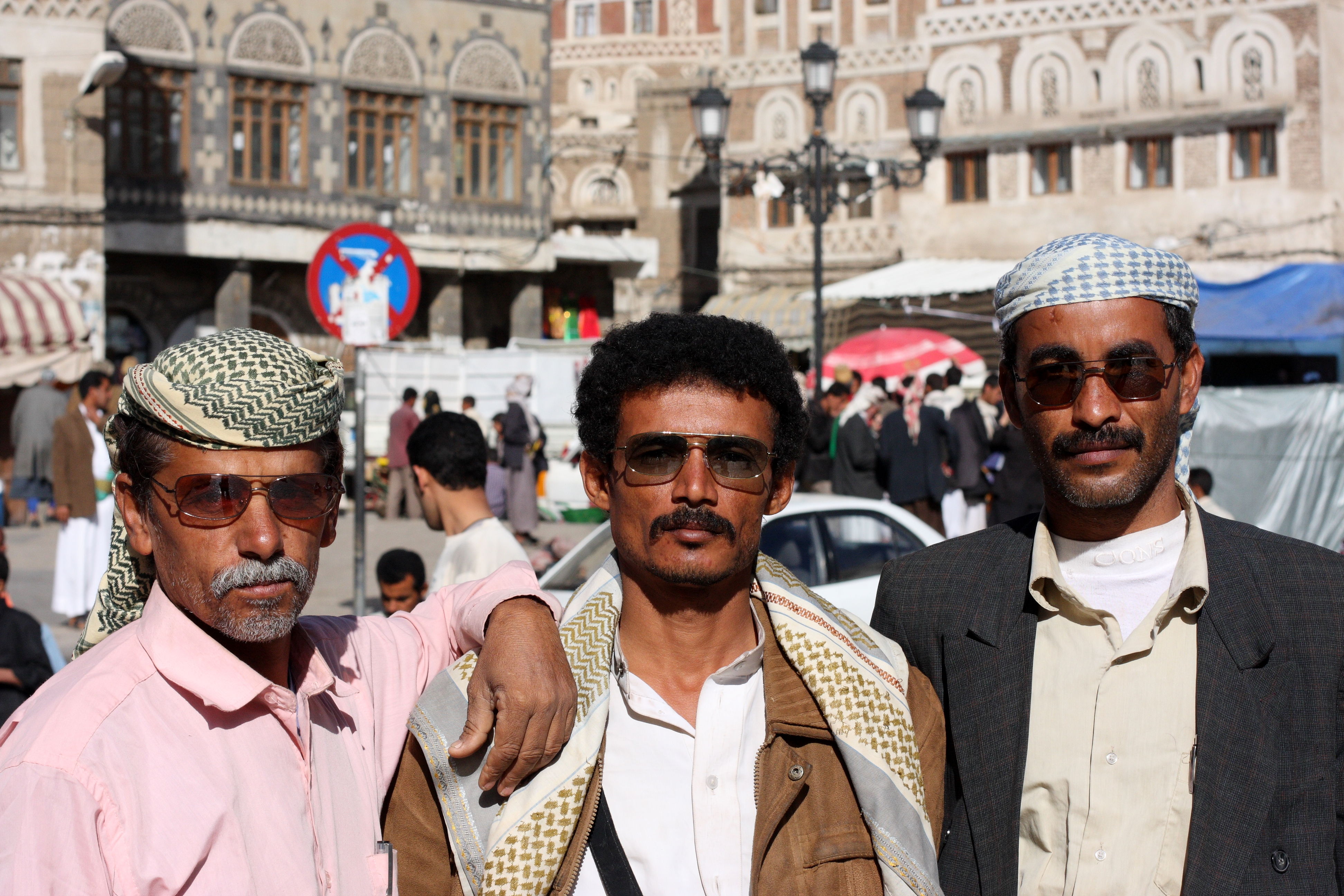 Men of Sana'a, Yemen